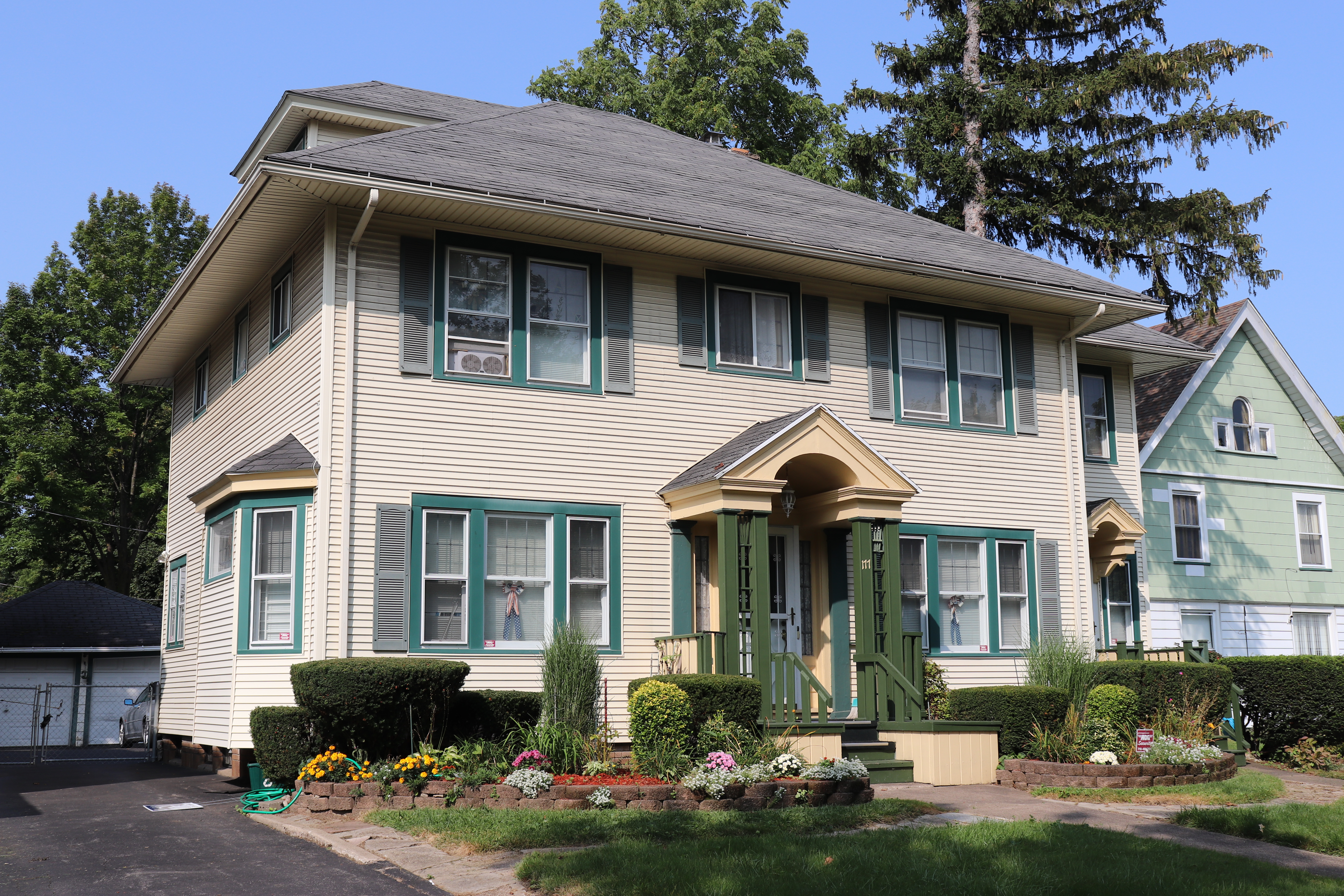 House in the Inglewood and Thurston Historic District